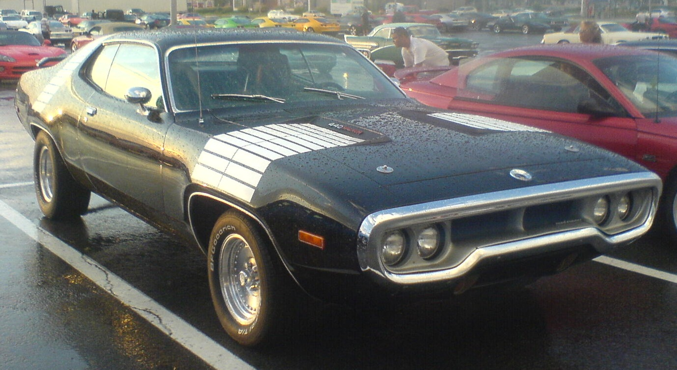 1972 Plymouth Road Runner photographed in Laval, Quebec, Canada at Les chauds vendredis 2010.